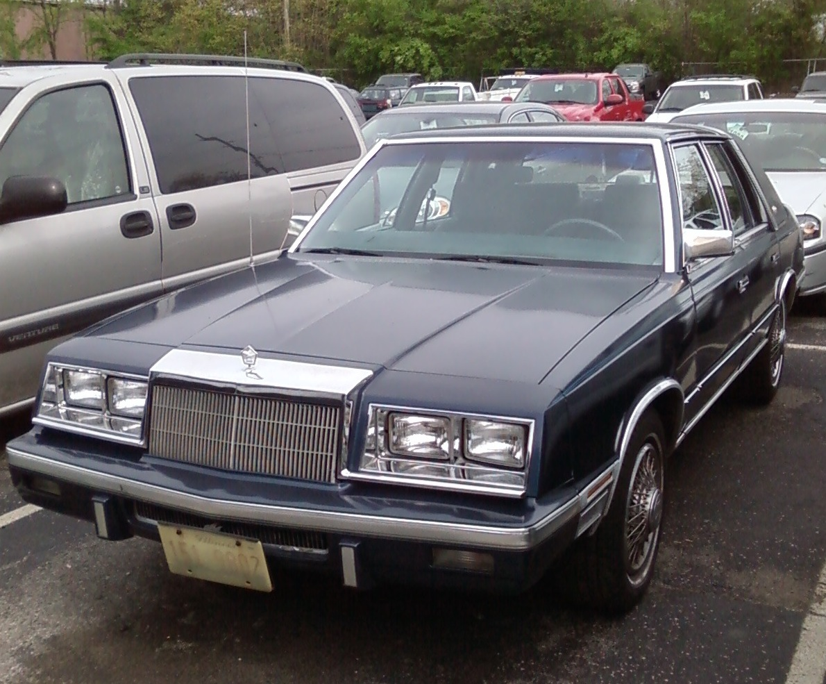 1987 Chrysler New Yorker